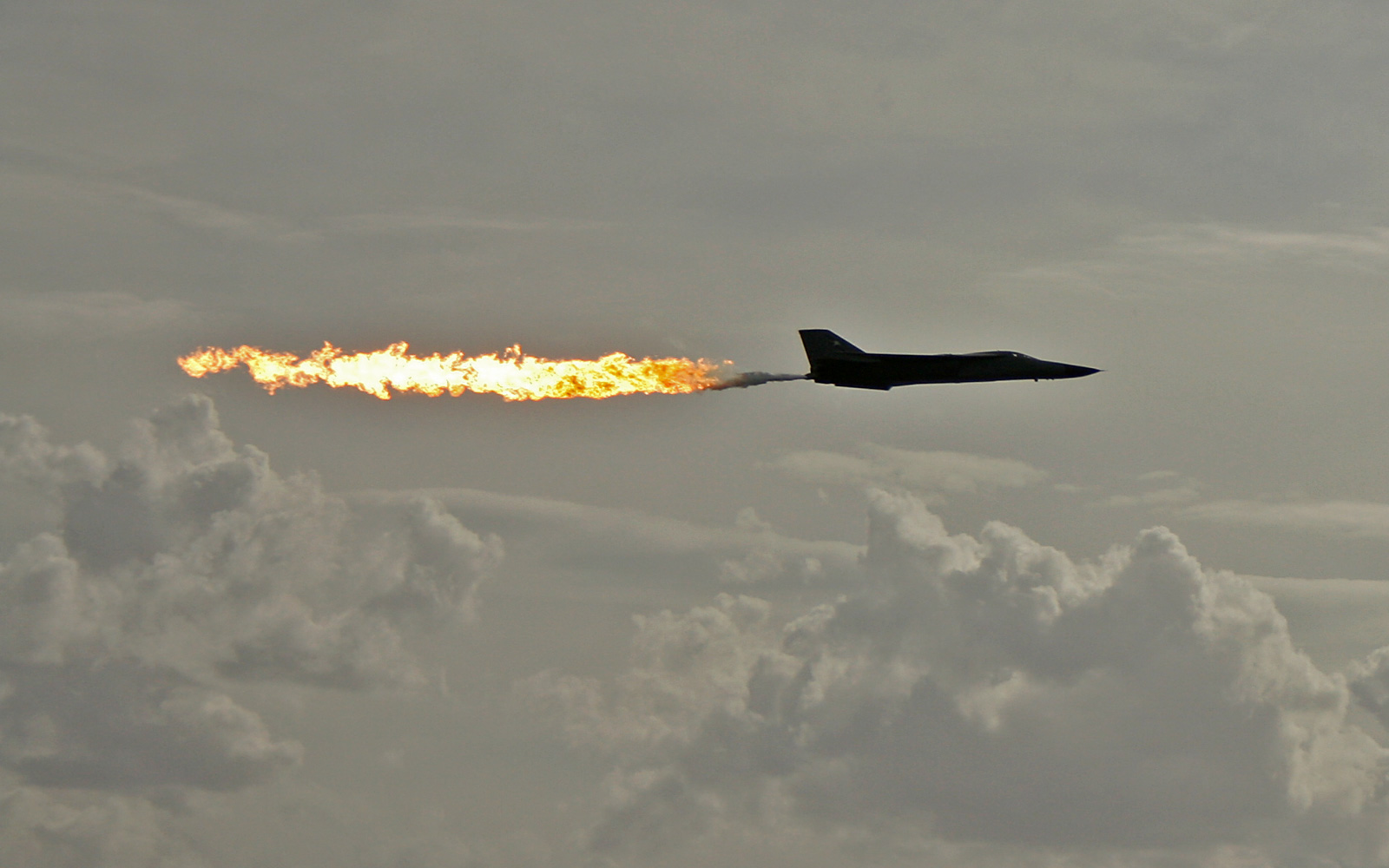 RAAF General Dynamics F-111 aircraft performing a dump-and-burn fuel dump. Avalon, Victoria, Australia.